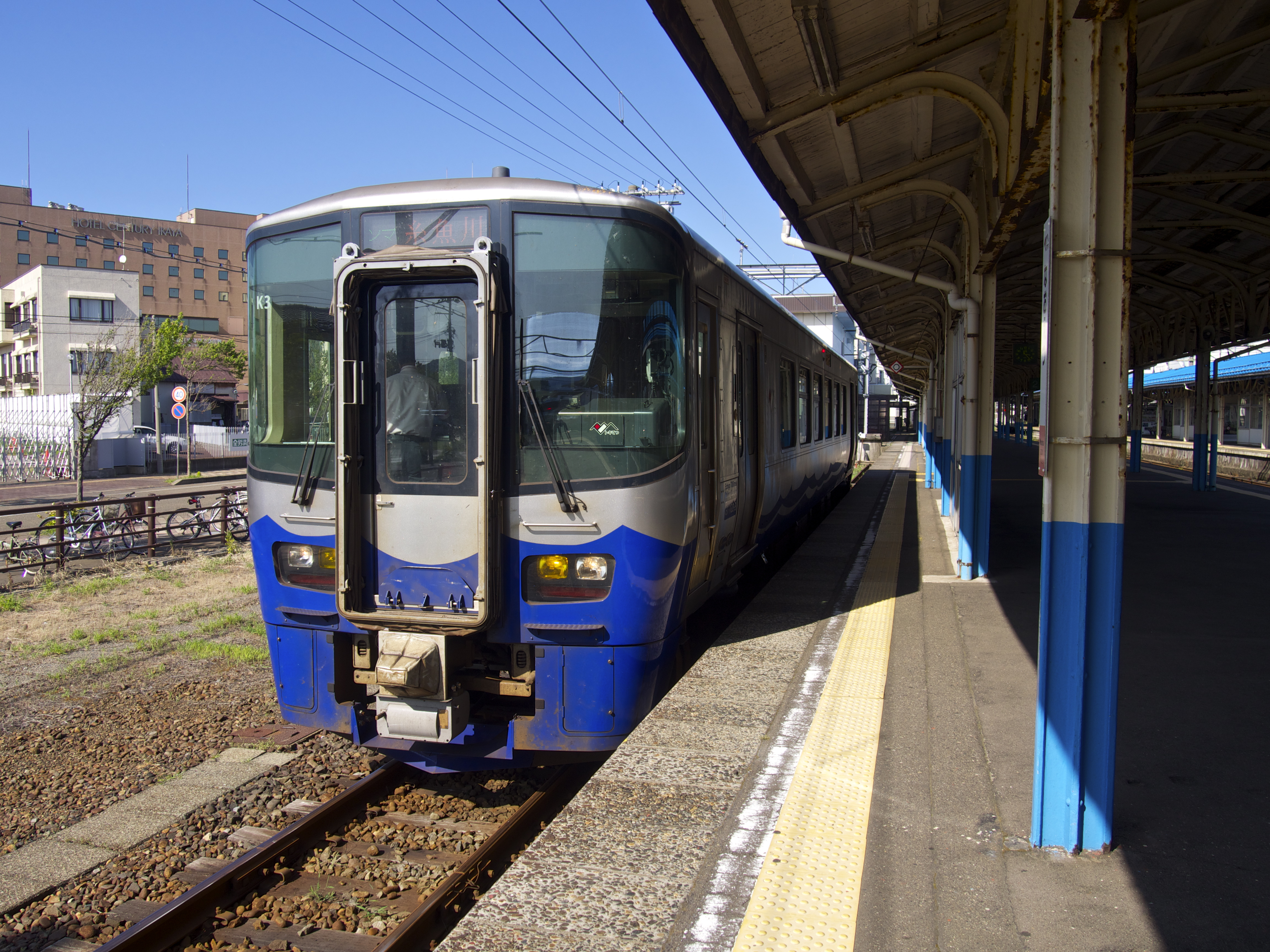 Echigo Tokimeki Railway Class ET122 DMU car ET122-3 at the bay platform at Naoetsu Station